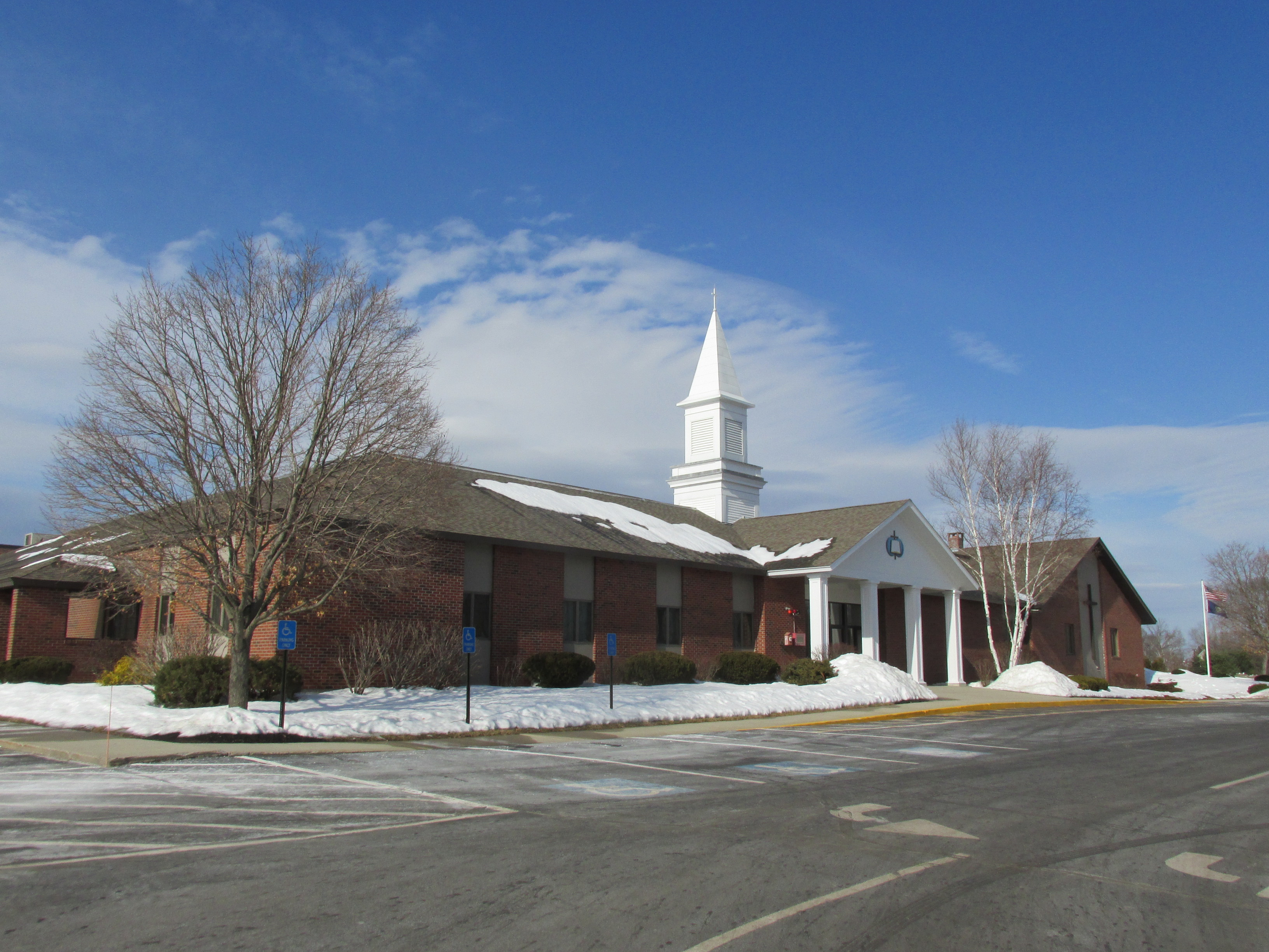 Trinity Baptist Church, Concord New Hampshire - 2014